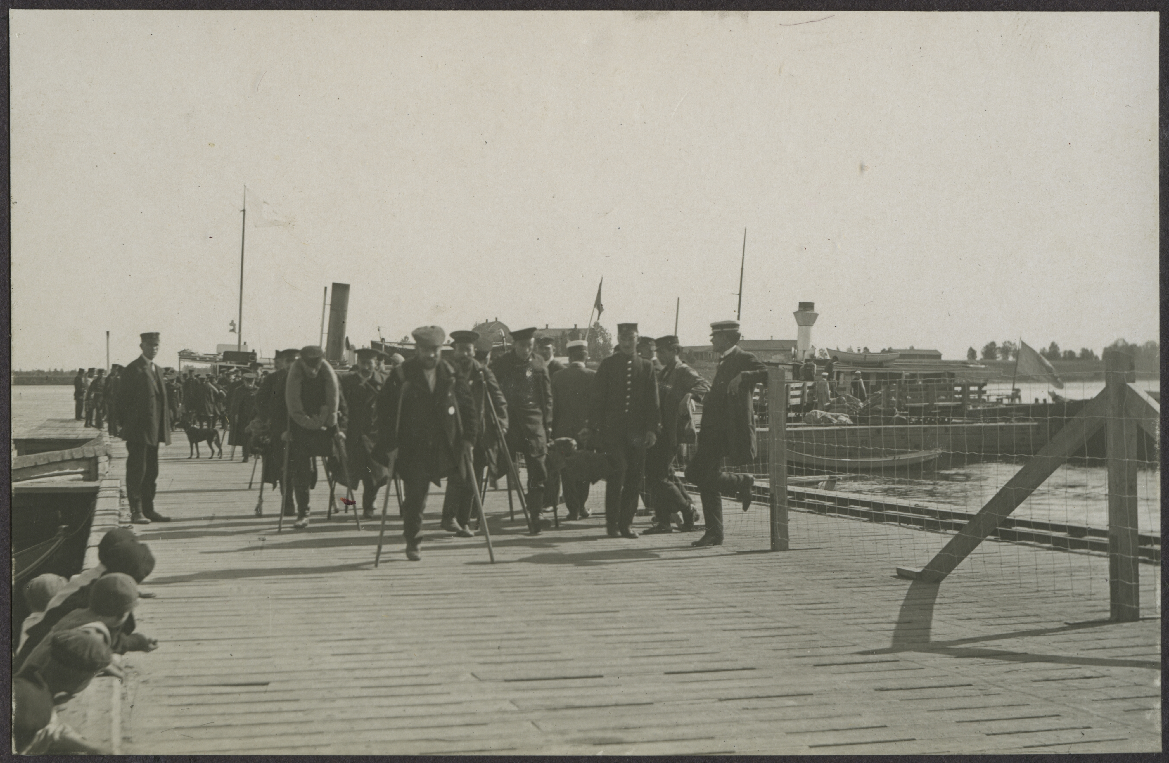 Central powers soldiers as prisoner of war returning via Tornio-Haparanda from Russia to home countries during the 1st world war